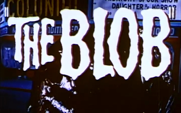 Screenshot of the trailer of "The Blob".